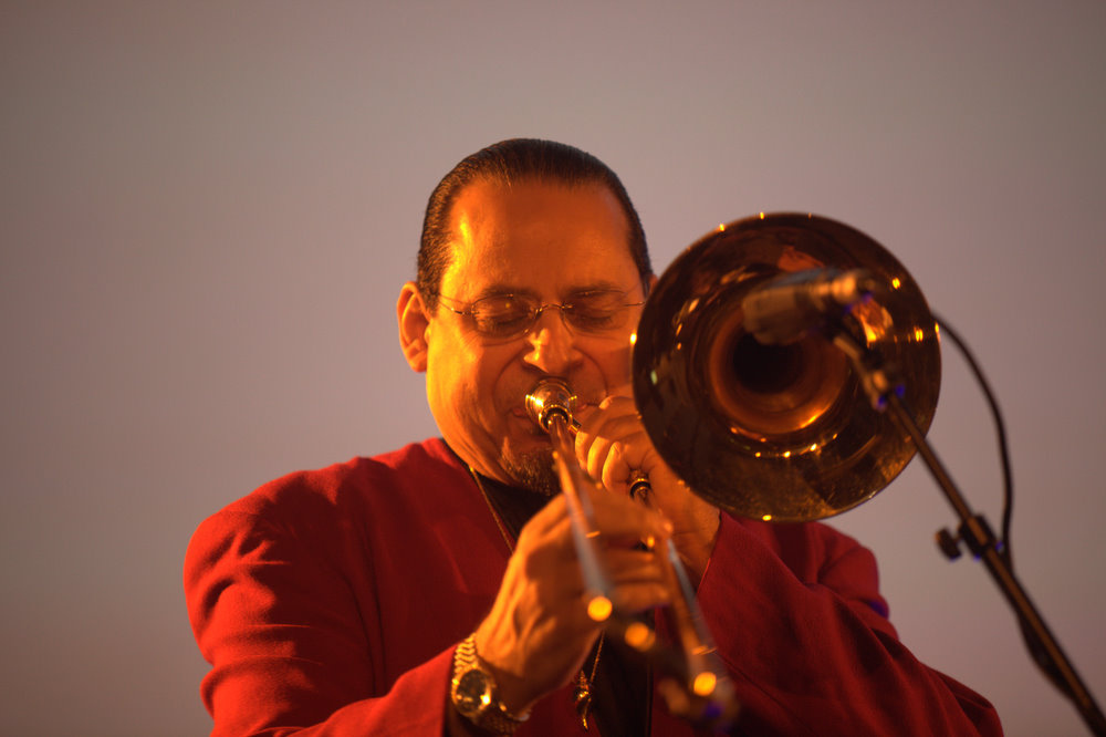 Trombonist Steve Turre playing on June 11, 2010